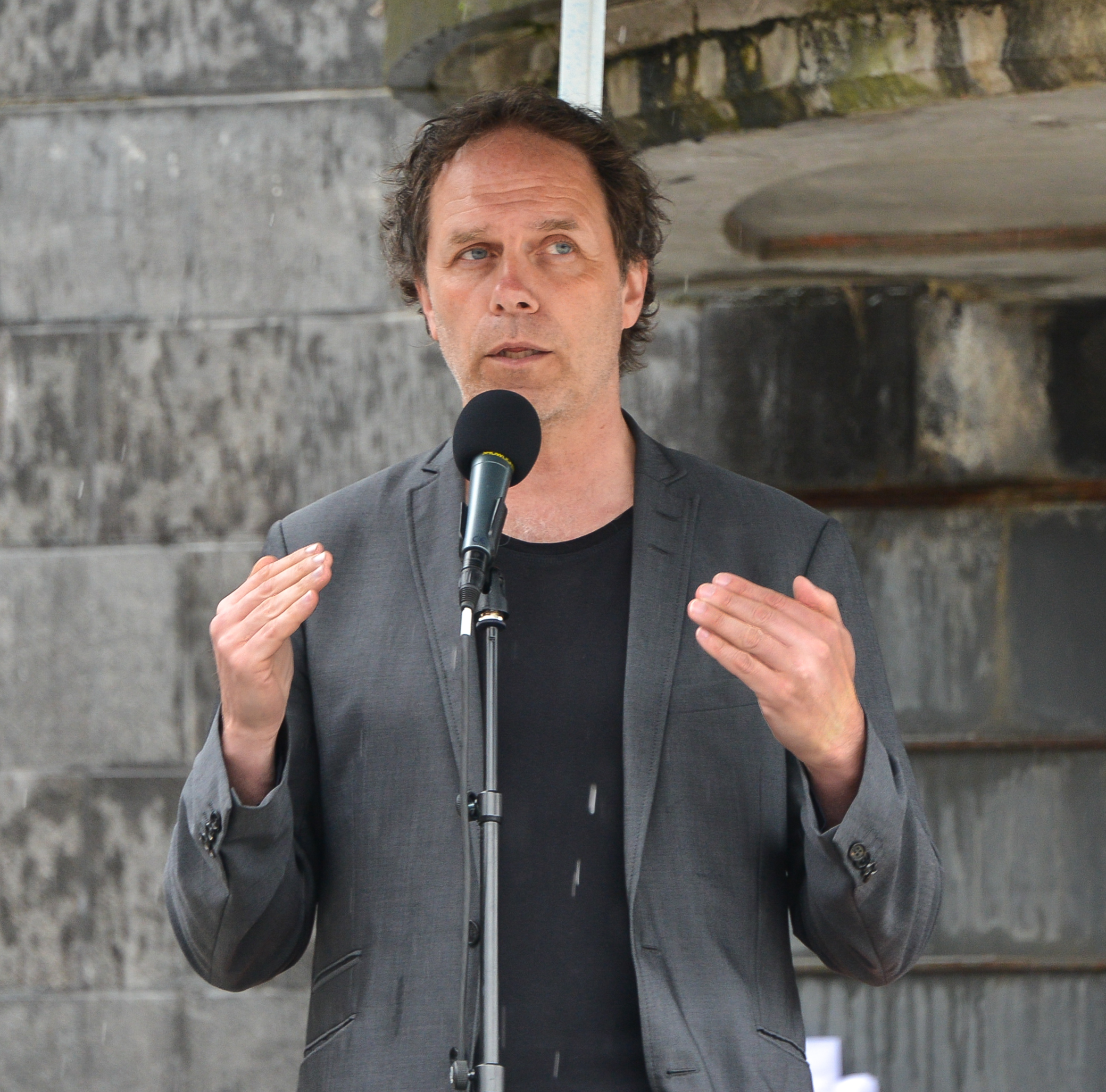 Pär Holmgren campaigns at Sergels torg before the European Parliament elections 2019.